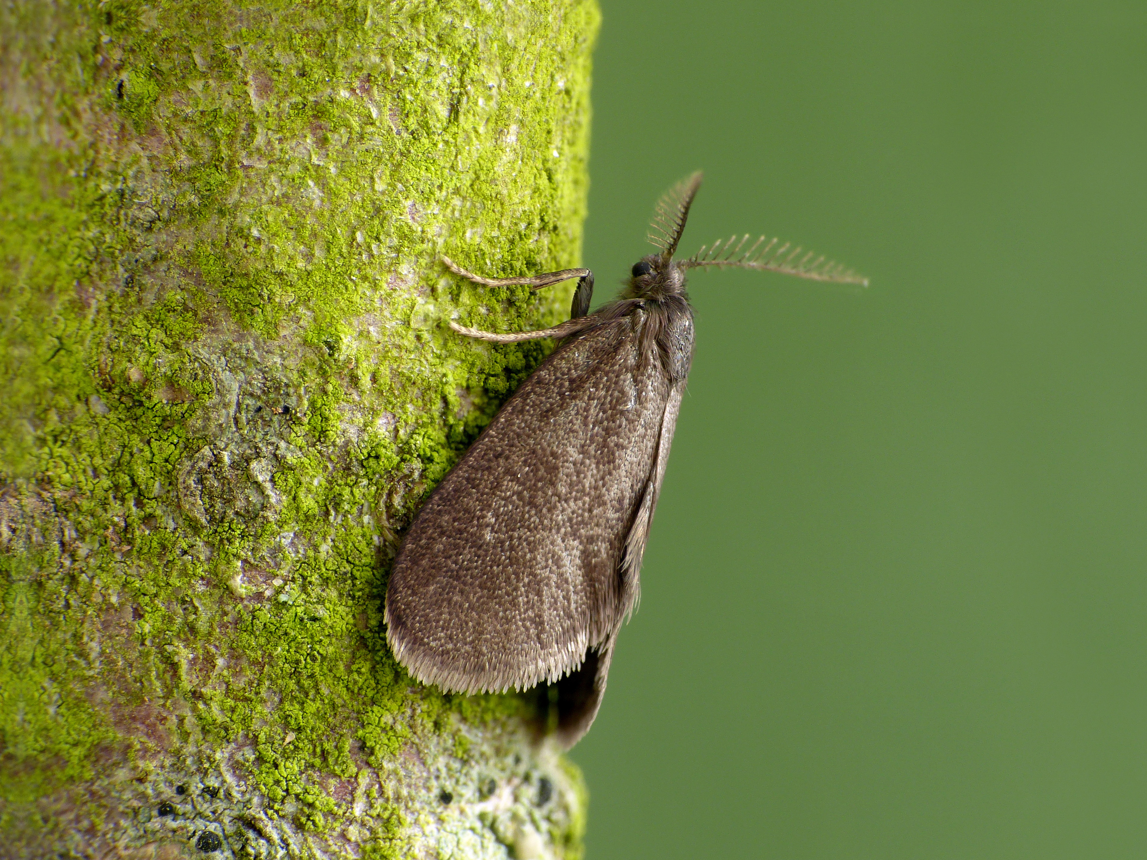 I have had been rearing around 50 larvae from a batch of eggs collected 10 months ago. 5 males have emerged so far but none of the flightless females. Sharp antennae would have been nice but these seem to be very flighty and at the moment I am pleased to have managed this shot!